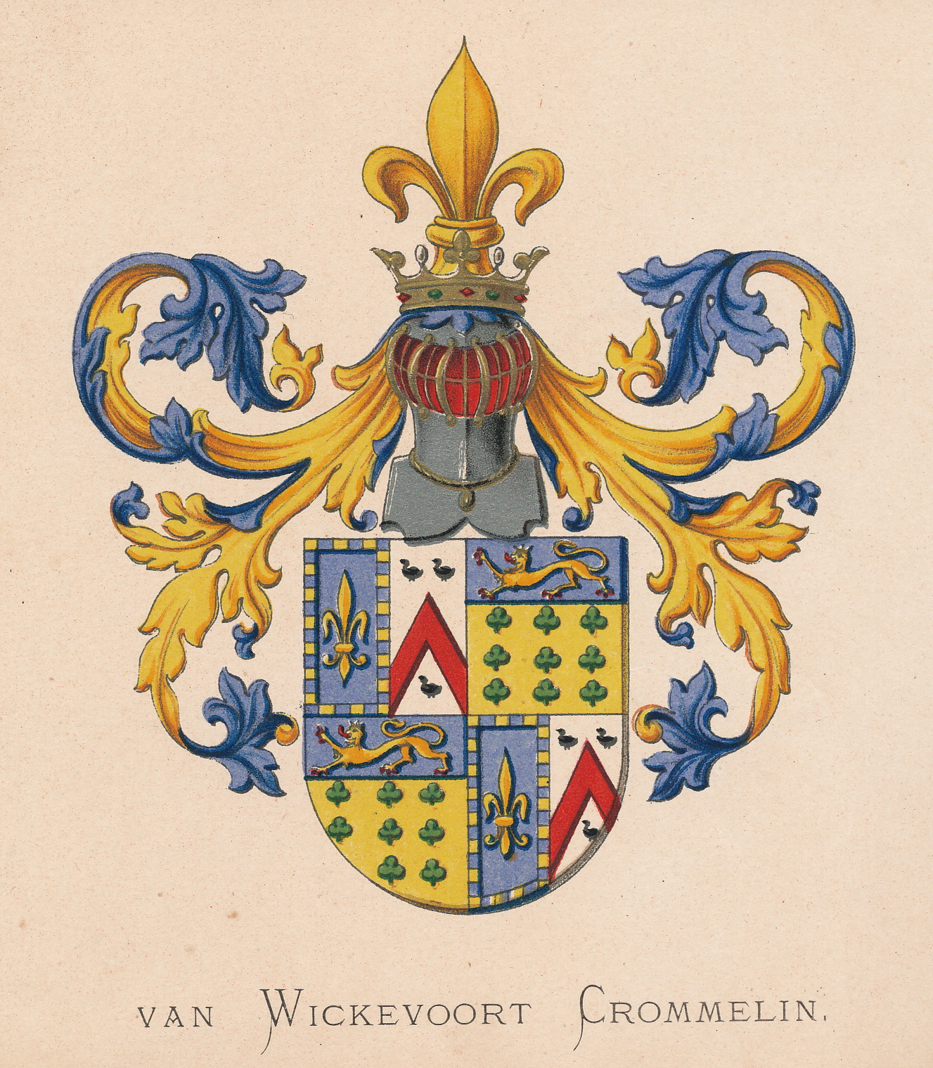 Coat of Arms of the Van Wickevoort Crommelin family getekend door heraldicus en wapentekenaar C. W. H. Verster (overl. Driebergen 1921)